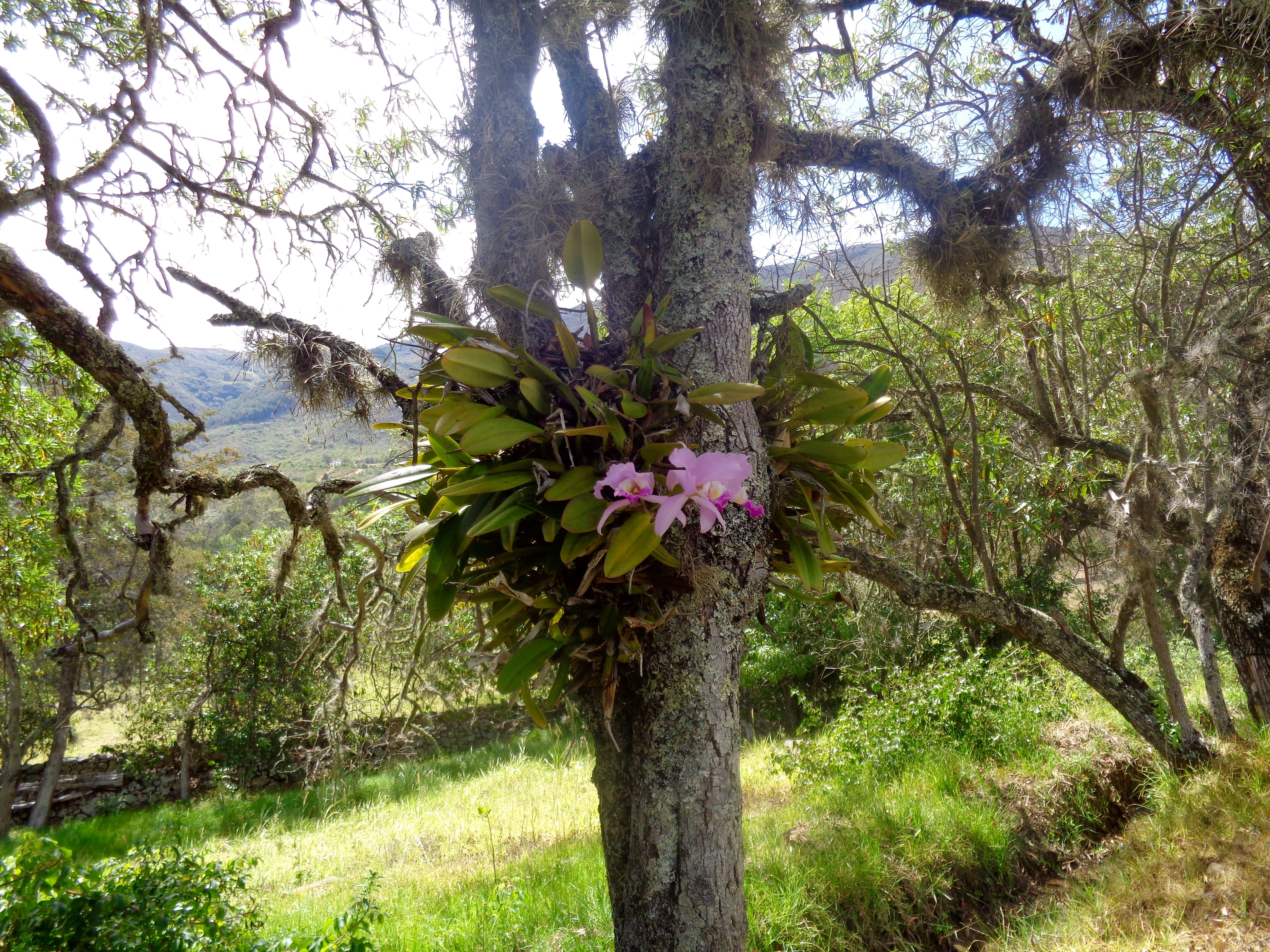 Orquídea Cattleya en los campos Soatenses